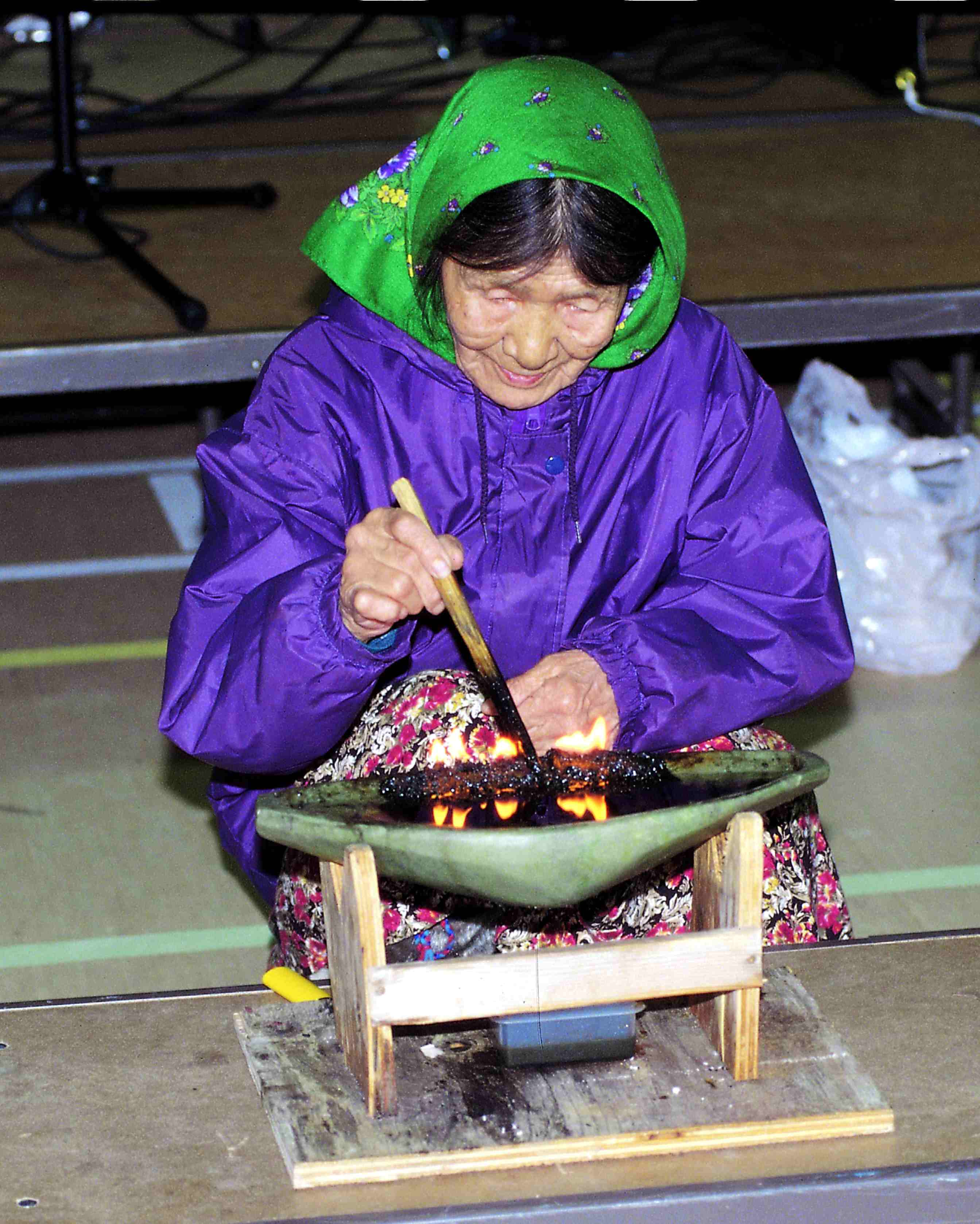 Qulliq - lightened on April 1, 1999 (Nunavut inauguration)